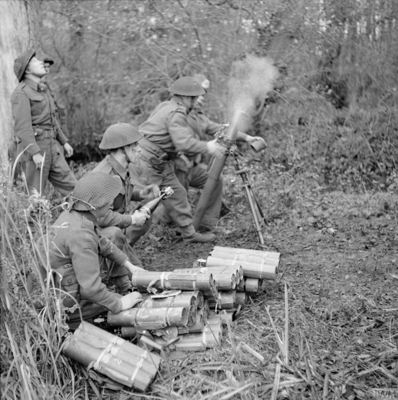 The British Army in the United Kingdom 1939-45 3-inch mortars of the Essex Regiment in action, Orford battle area, December 1942.